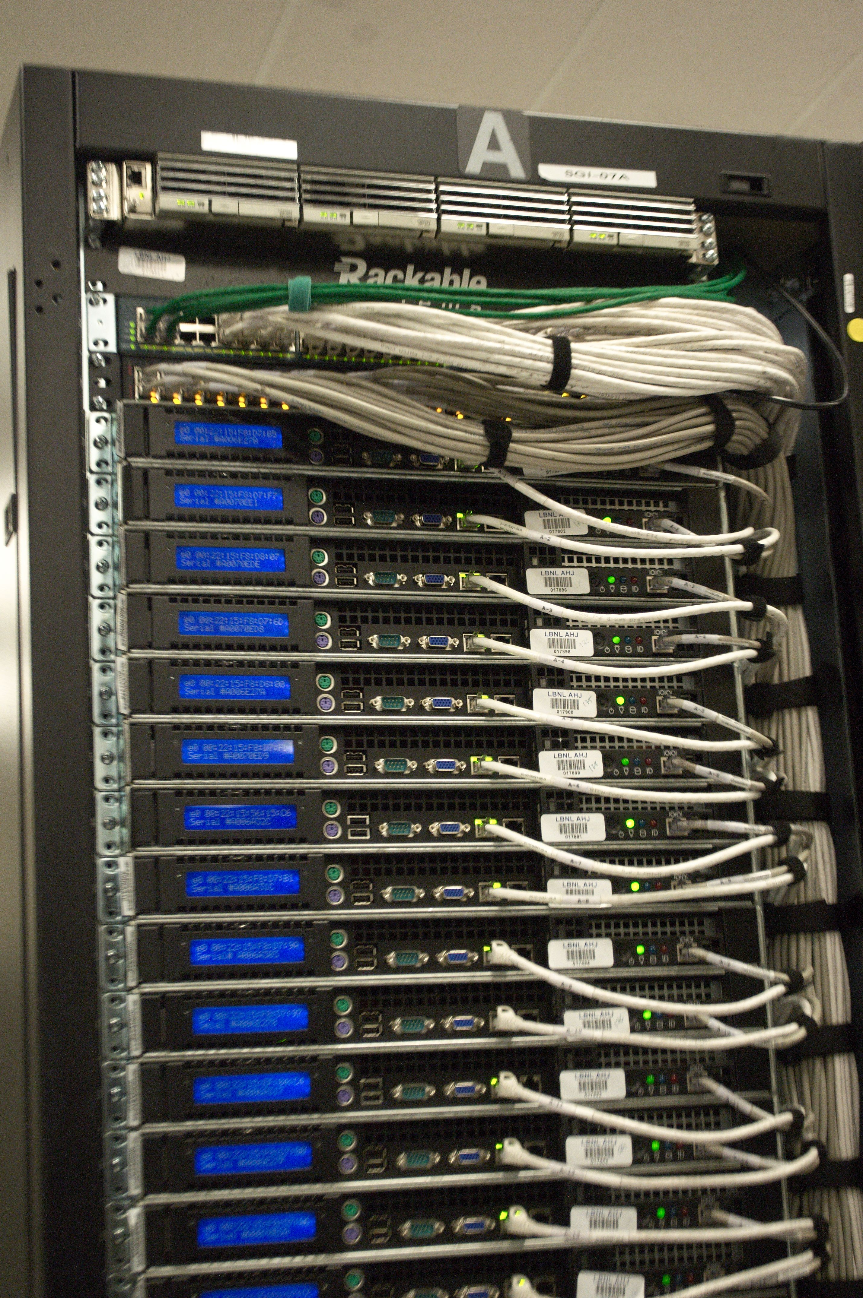 Showing blue LED screens giving MAC address and serial number. White cables are Ethernet cables. Each server features commodity PC outlets including a serial port, VGA port, PS/2 ports, and USB ports. CC0 waiver: To the extent possible under law, I waive all copyright and related or neighboring rights to this work.